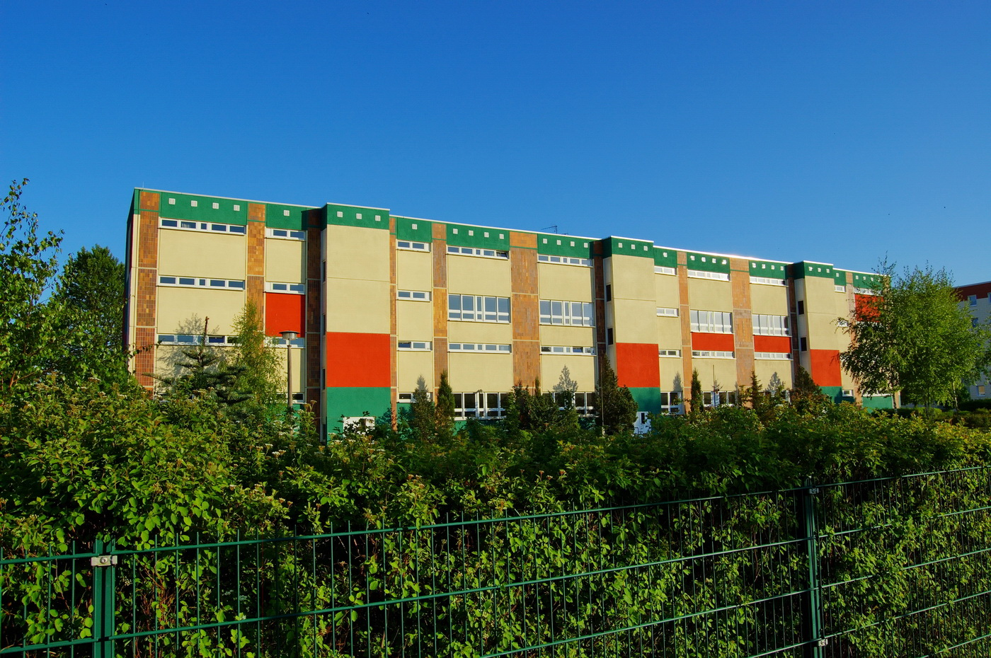 Schoolbuilding in Gelbensande